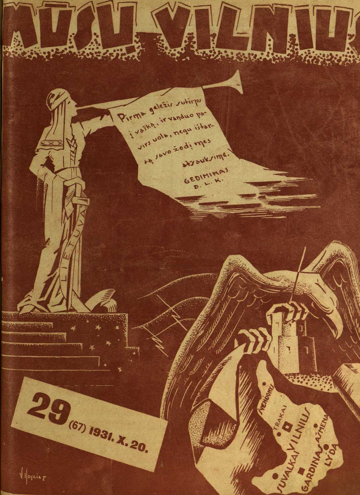 Cover page of Mūsų Vilnius (volume 29). It depicts Polish eagle stealing the Tower of Gediminas and map of Vilnius Region. The woman symbolizing Lithuania blows a trumpet with a quote from the letters of Grand Duke Gediminas written in 1323: "Sooner iron will melt into wax, and water will turn into a rock than we will revoke our words" (Pirma geležis sutirps į vašką, ir vanduo pavirs uola, negu ištartą savo žodį mes atšauksime)